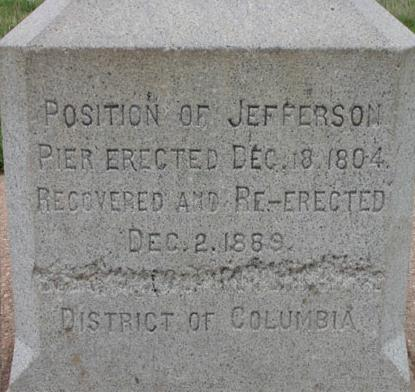 Jefferson Pier, a granite survey marker at 38°53′23″N 77°2′12″W / 38.88972°N 77.03667°W in Washington, D.C. Transcription: Position of Jefferson Pier erected Dec. 18, 1804. Recovered and Re-erected Dec. 2, 1889. [Line of text possibly removed.] District of Columbia